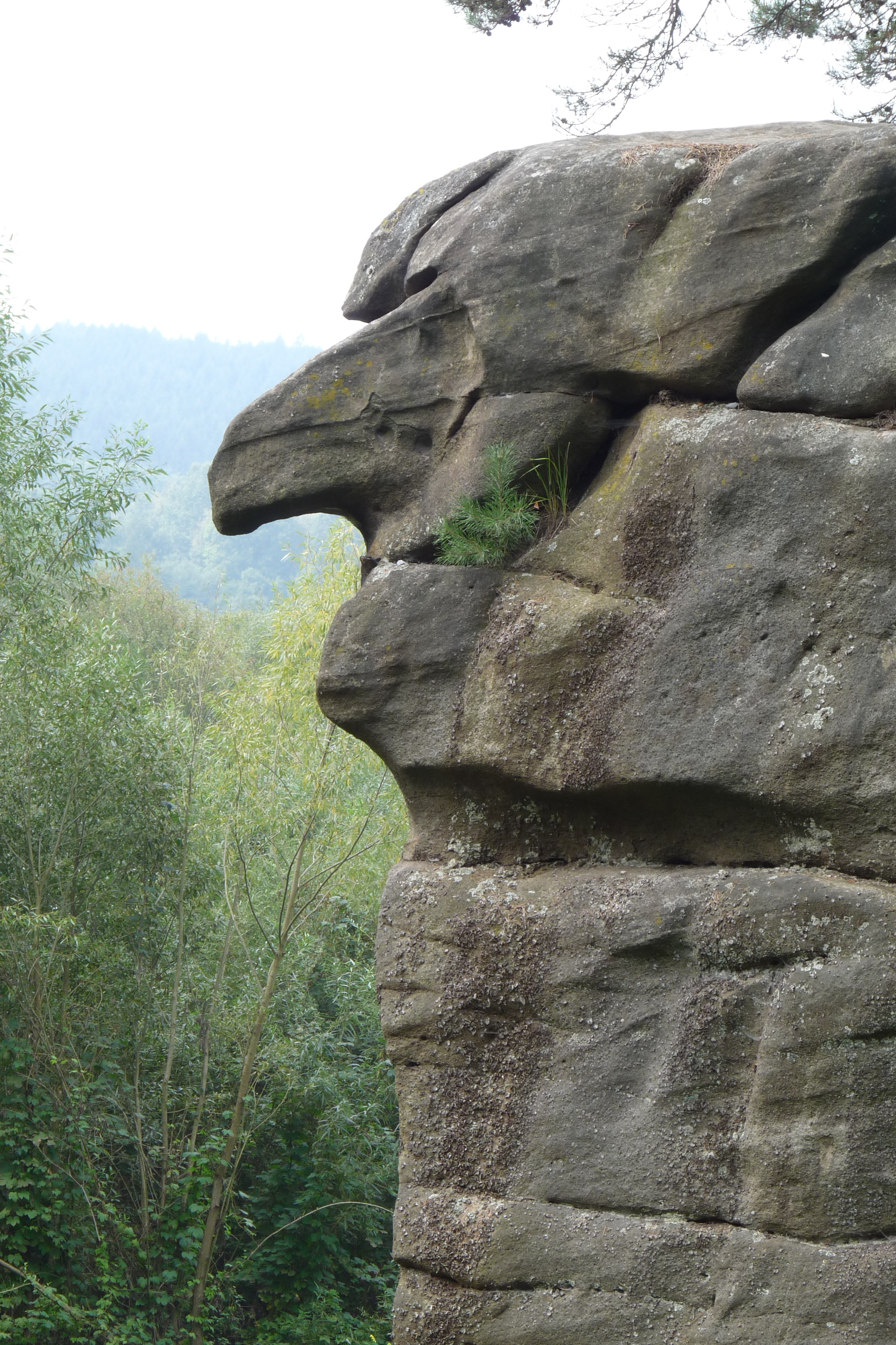 Nature reserve Skamieniałe Miasto